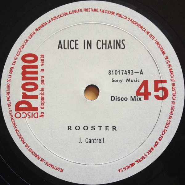 A label of Costa Rica vinyl release of "Rooster" by Alice in Chains